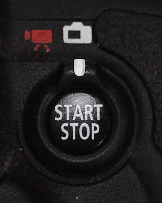 Canon EOS 7D, Start/Stop button.